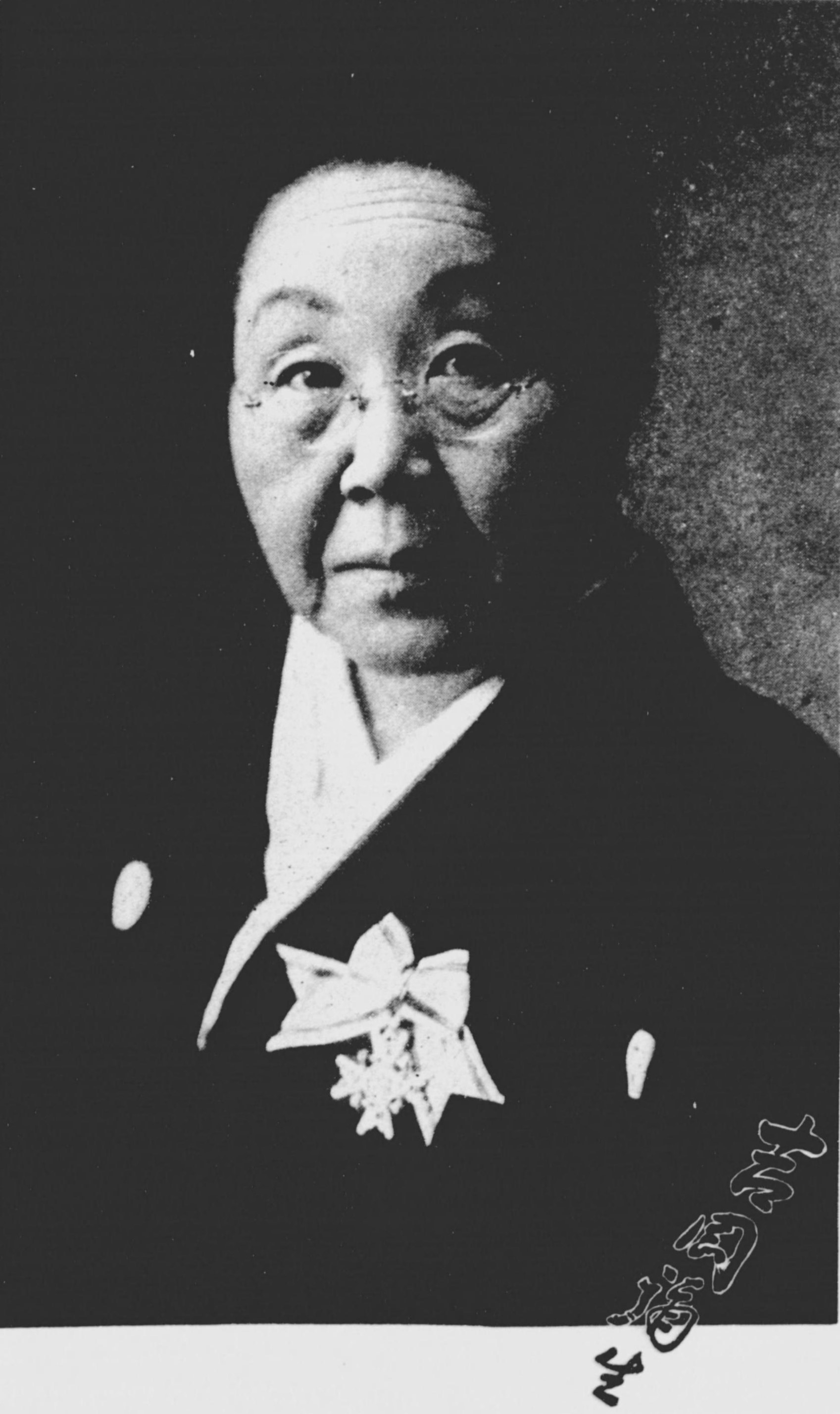 Yosioka Yayoi around 1941.